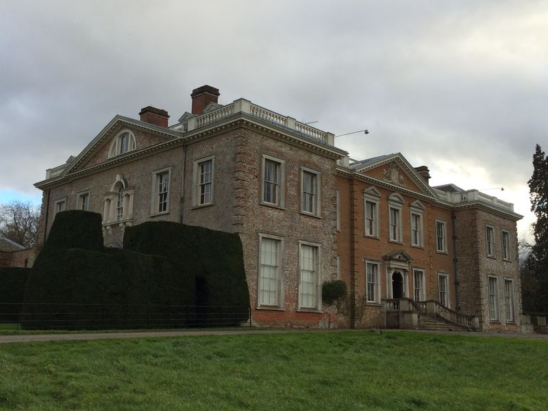 View of Sotterley Hall, Suffolk, England.